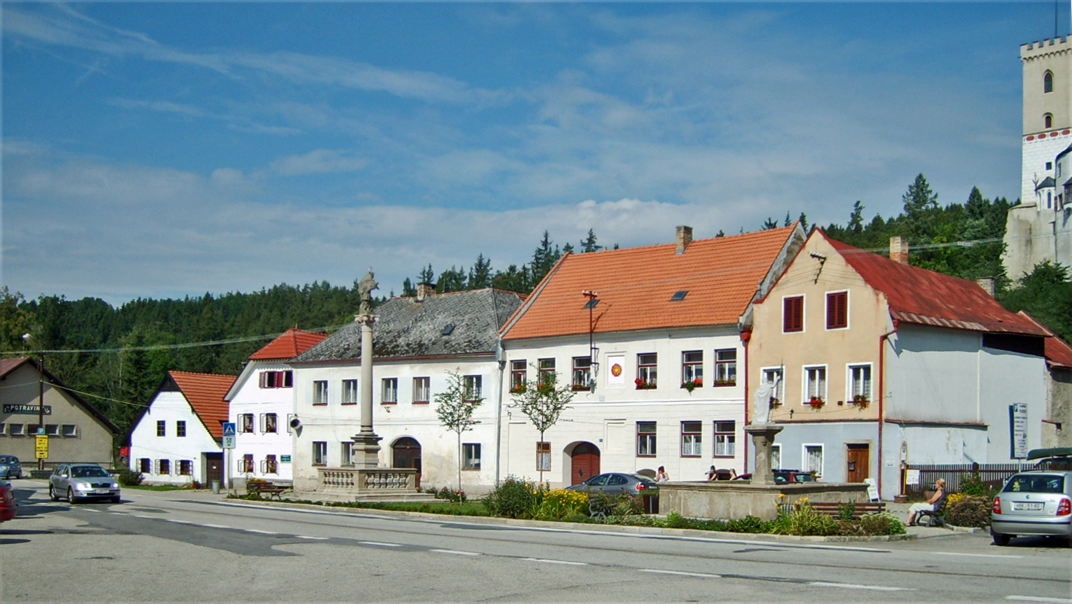 The square in Rožmberk.